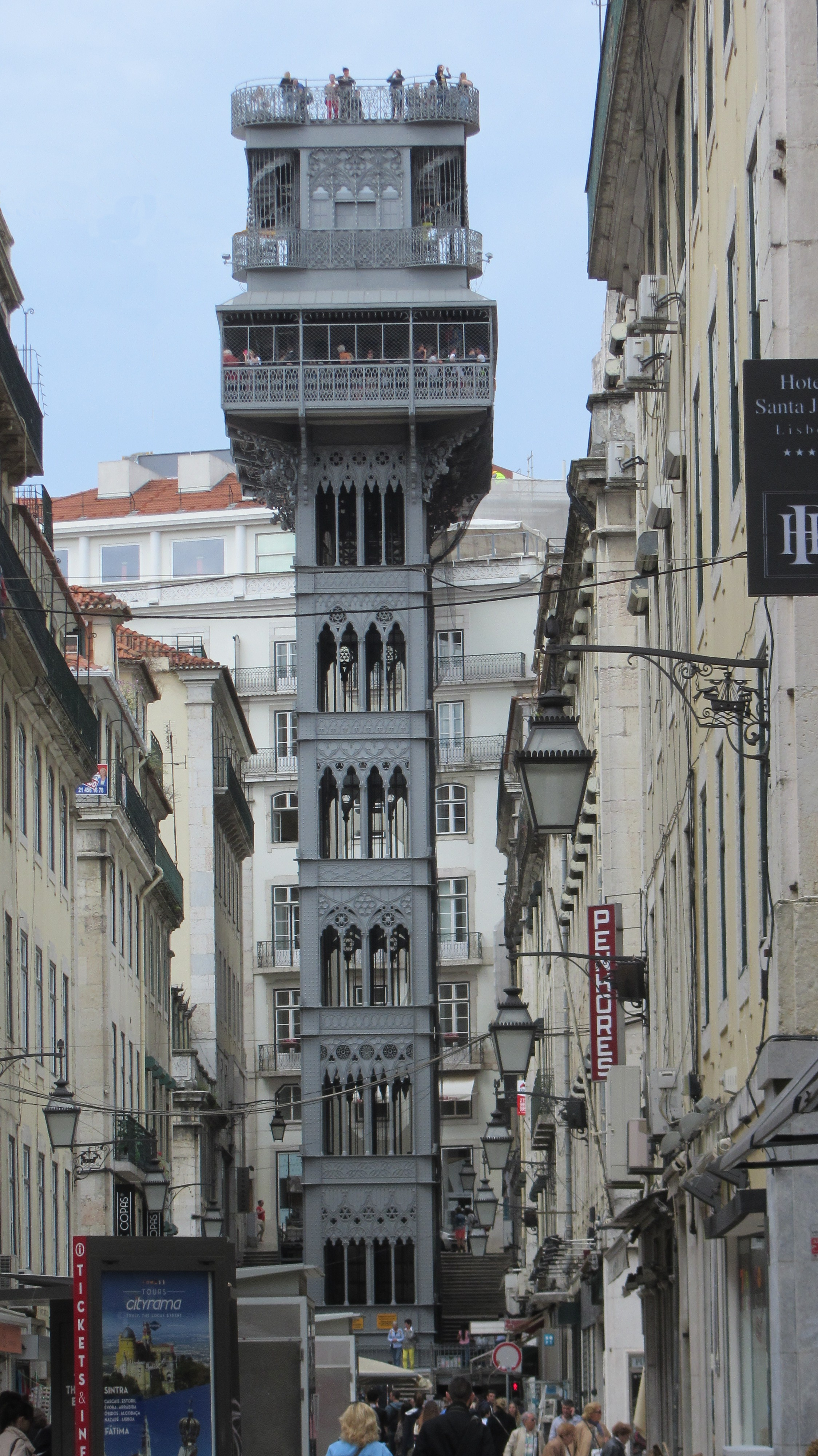 Historic elevator de Santa Justa in Lisbon (Portugal).